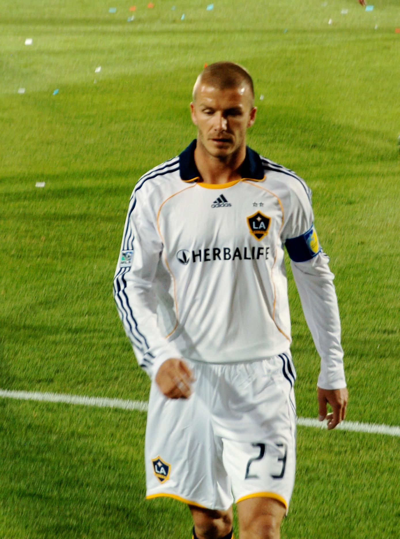 David Beckham in LA Galaxy cropped from original Image:Beckham LA Galaxy.jpg by myself